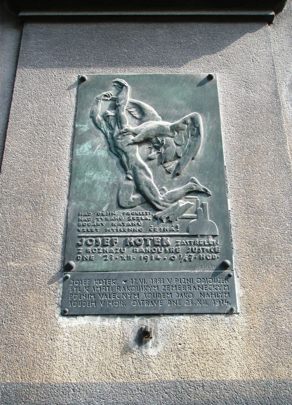 Memorial plaque in Ostrava commemorating the execution of Josef Kotek, executed for his anti-Austrian speech in 1914. (Author: Miloslav Bublík)